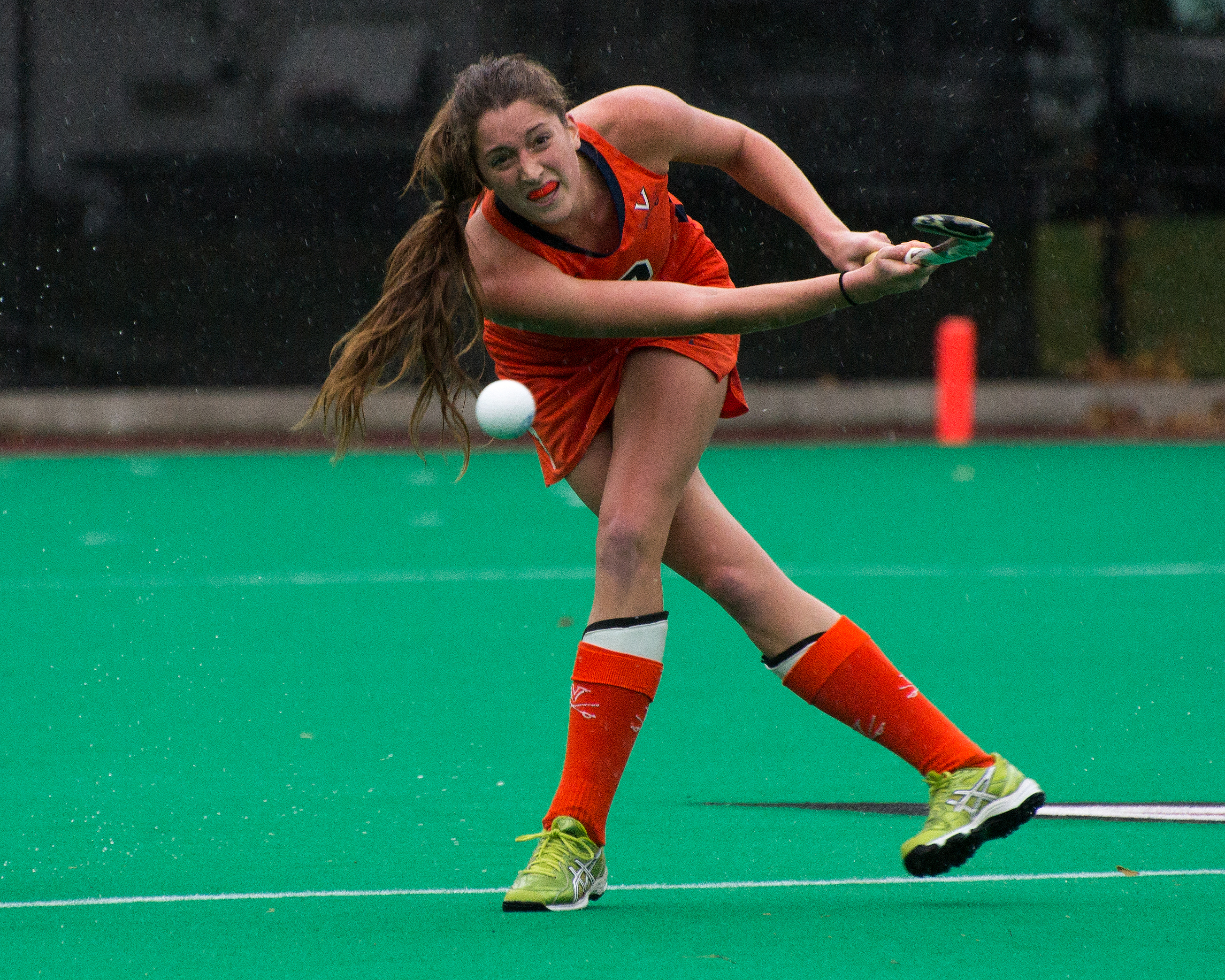 University of Virginia student athlete competing in field hockey